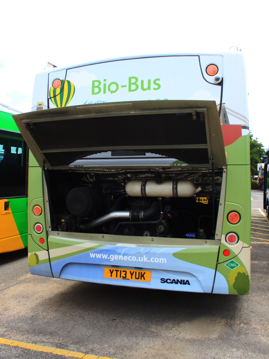 A view of the powerplant of GENECO's methane-powered demonstration bus, Scania YT13YUK which is operating in Bristol as First's number 68501.